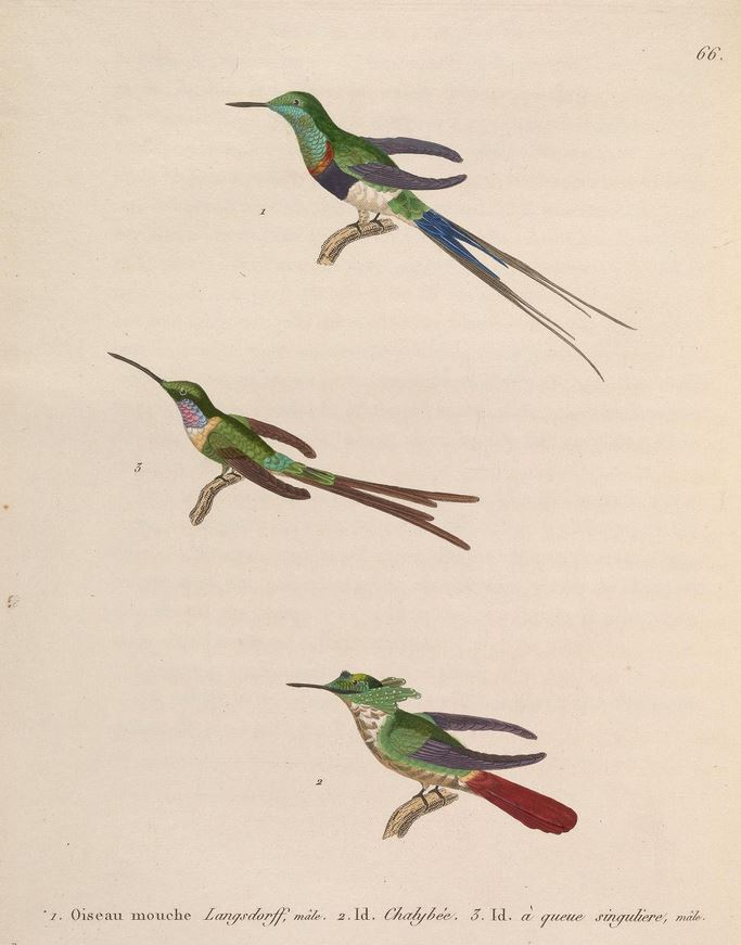 Discosura langsdorffi = Syn: Oiseau-Mouche Langsdorff Trochilus langsdorffi (figure 1) Lophornis chalybeus = Syn: Oiseau-Mouche Chalybé Trochilus chalybeus (figure 2) Doricha enicura = Syn: Oiseau-Mouche à queue singulière Trochilus enicurus (figure 3)